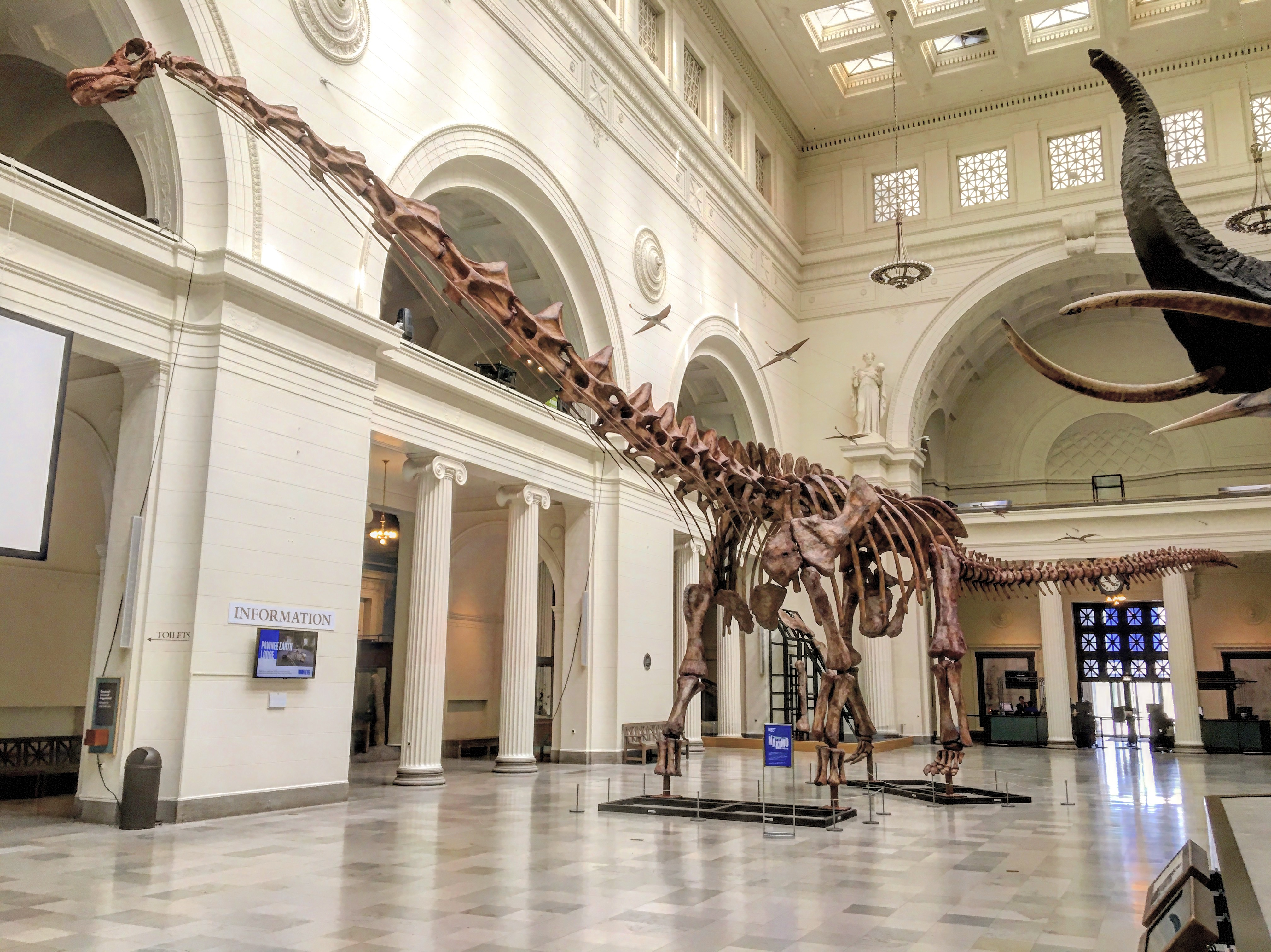 Image of the Titanosaur, Patagotitan, skeleton cast on display at the Field Museum of Natural History, Chicago, IL.